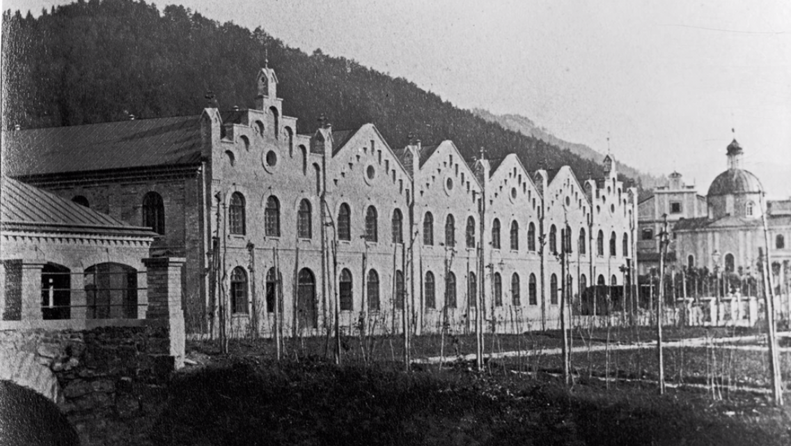 Töpperfabrik Umbau durch Musil Nahaufnahme